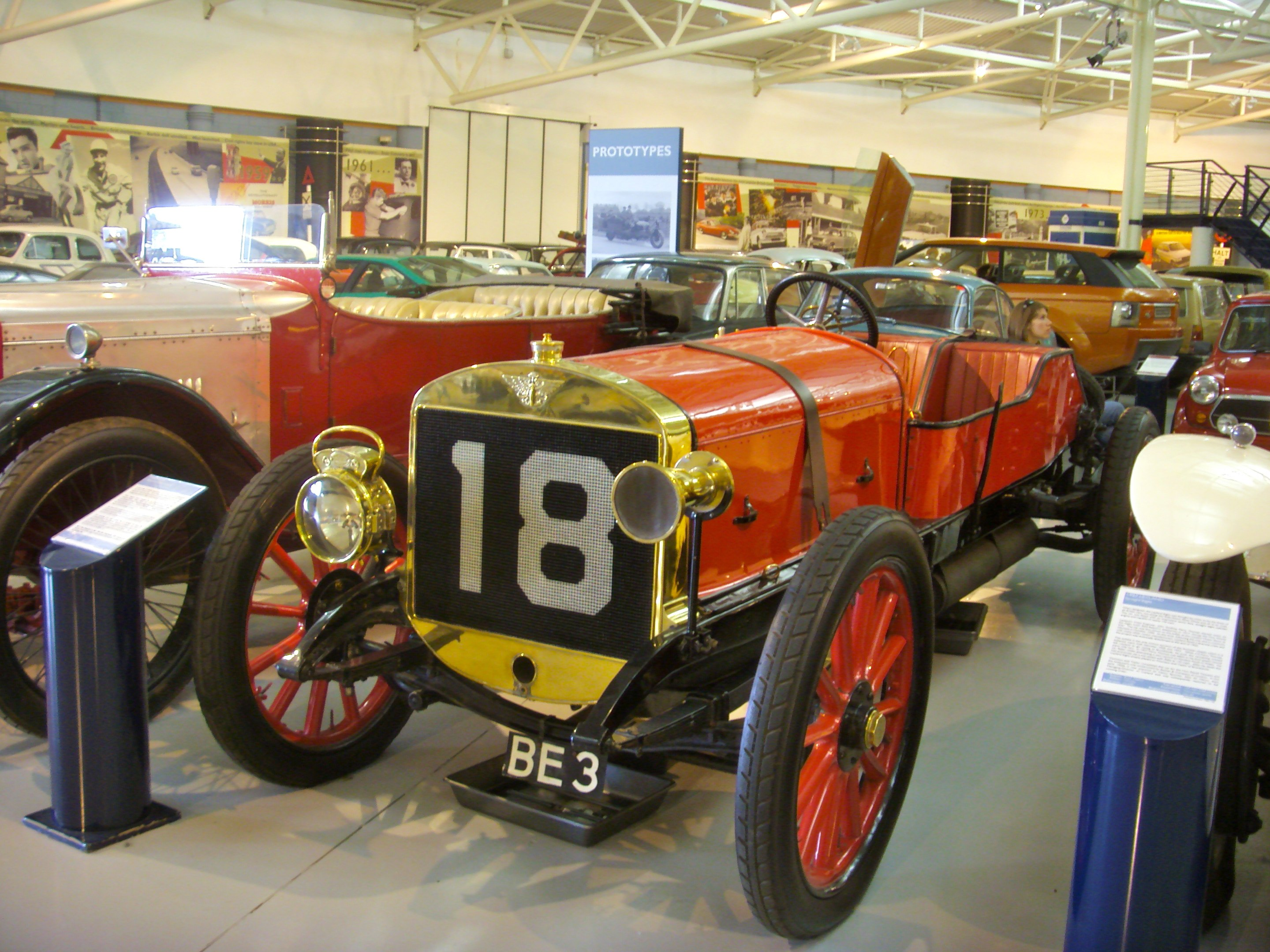 I bet that number plate is worth a few quid!